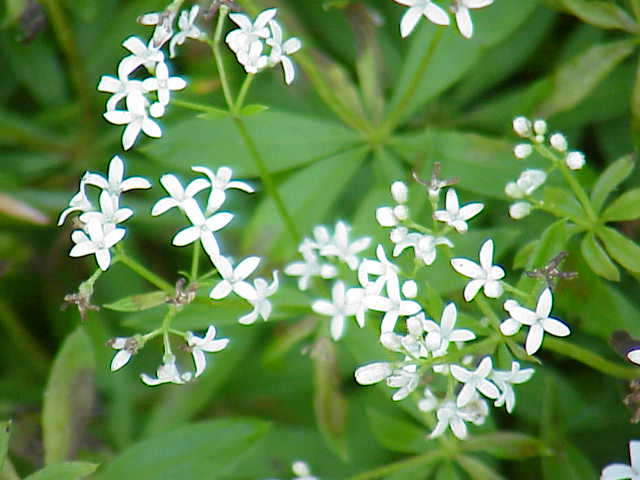 Species: Galium odoratum Family: Rubiaceae Image No. 1